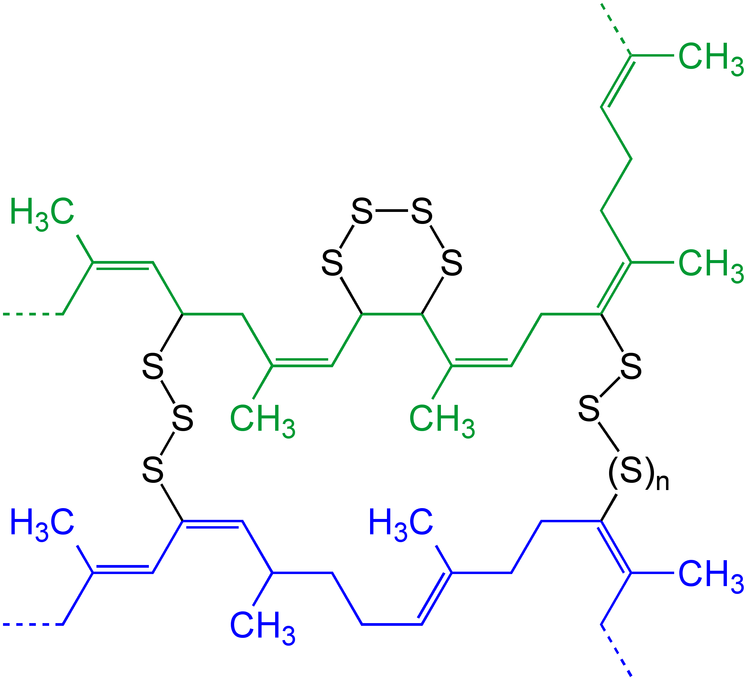 Schematic Structure Example of the Vulcanization_of_POLYIsoprene with n = 0, 1, 2, 3 ...